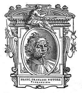 Illustratio from "Le Vite" by Giorgio Vasari, edition of 1568. For the artist portrayed see filename